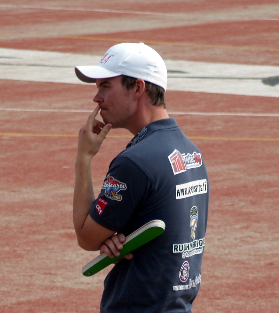 Pesäpallo coach Sami-Petteri Kivimäki, 2014.